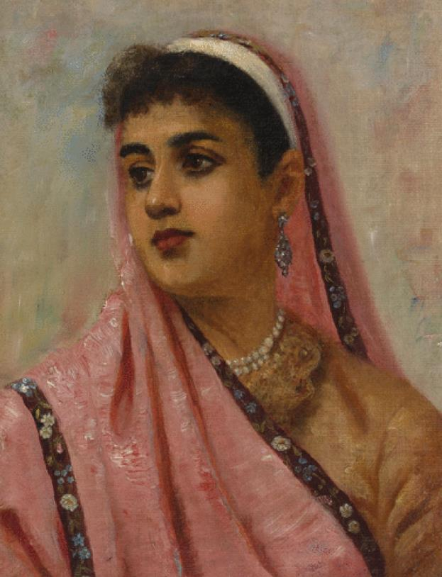 A Parsi woman in traditional costumes.